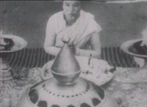 Screenshot of Joymati 1935 .